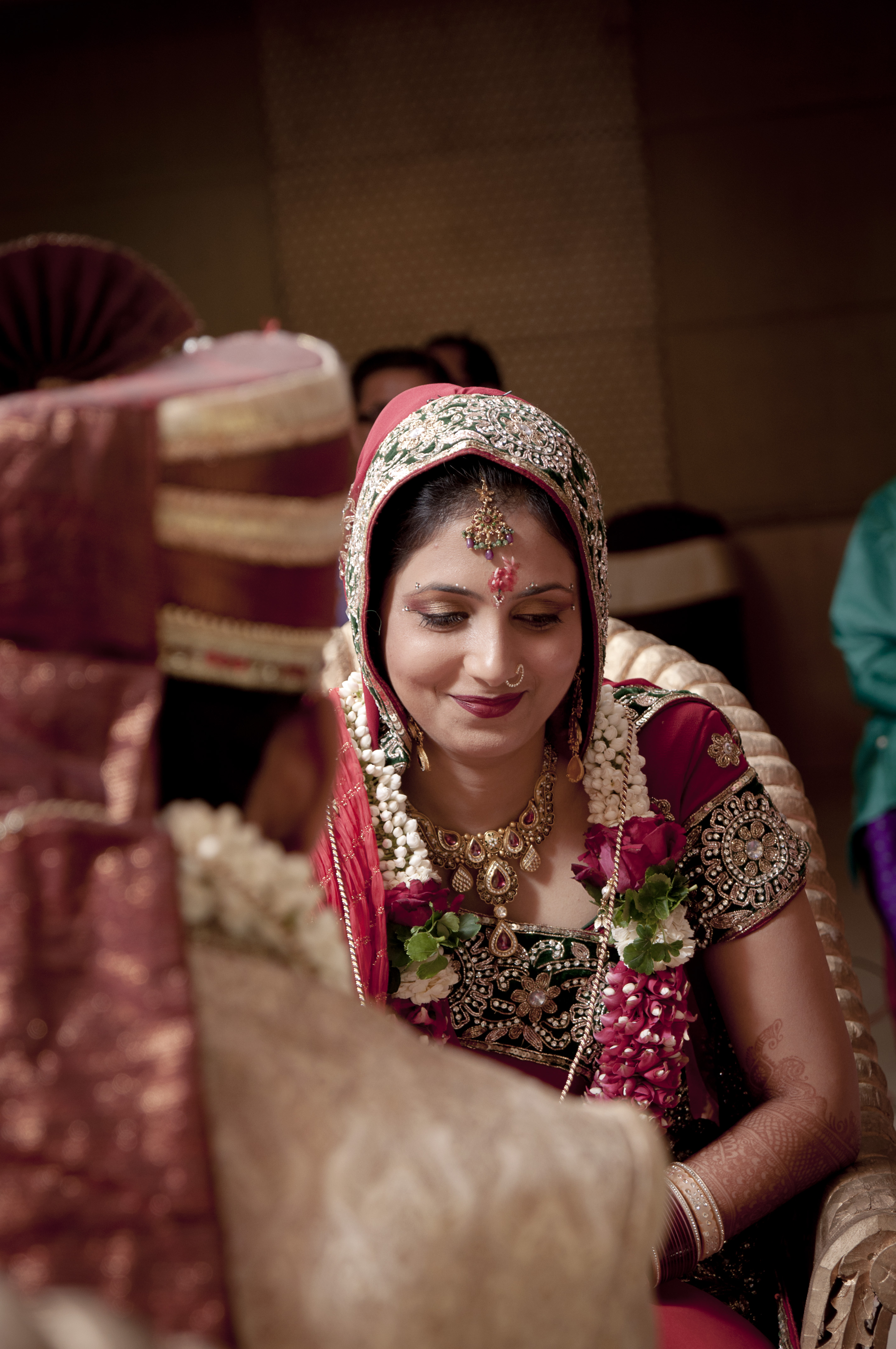 Shy smile of a bride in a Hindu wedding